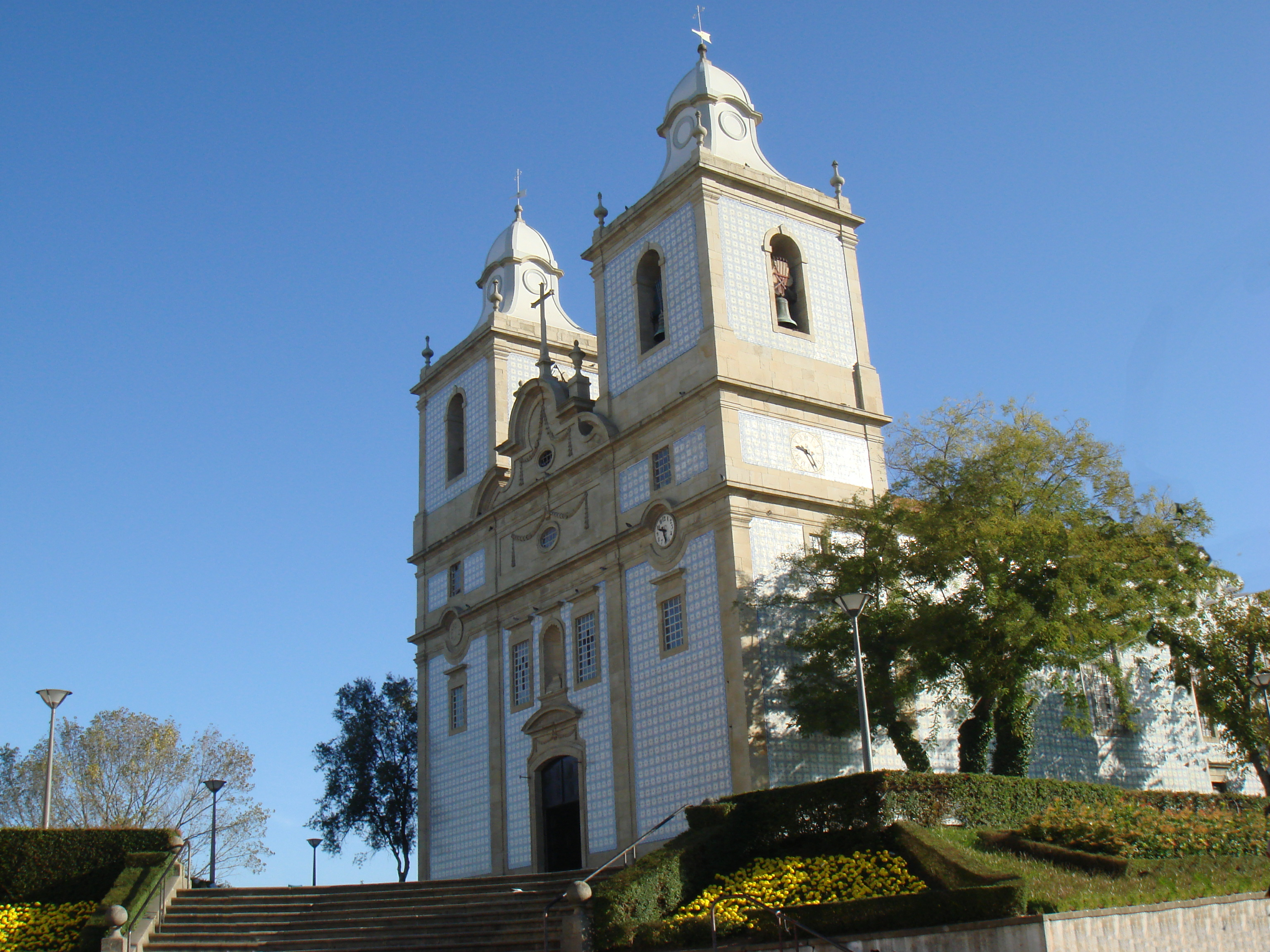 Ovar Matriz Church, in Ovar, Portugal